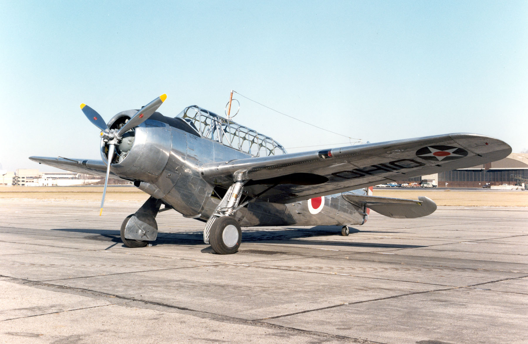 An U.S. 112th Observation Squadron, Ohio National Guard North American O-47B of the National Museum of the United States Air Force.